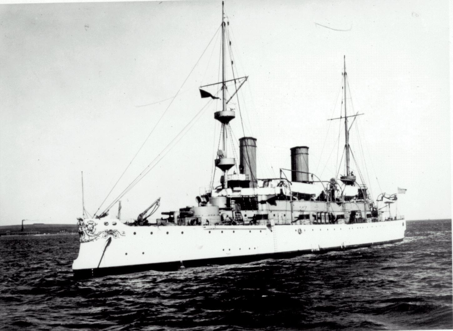 Protected Cruiser USS Olympia (C-6) – View from Port Bow, February 10 1902